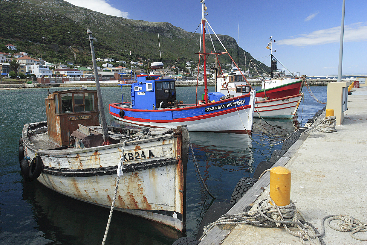 A picture of some boats, taken in the Cape Town area.